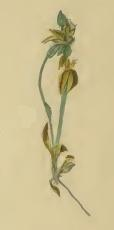 Stainton’s Natural History of the Tineina (1855–1873): Caryocolum proxima a sprig of Cerastium semidecandrum with a shoot spun together